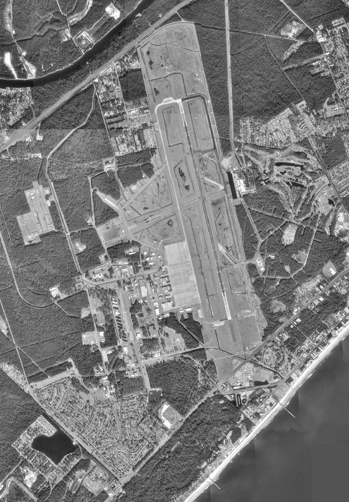 Myrtle Beach AFB, South Carolina - 23 January 1994